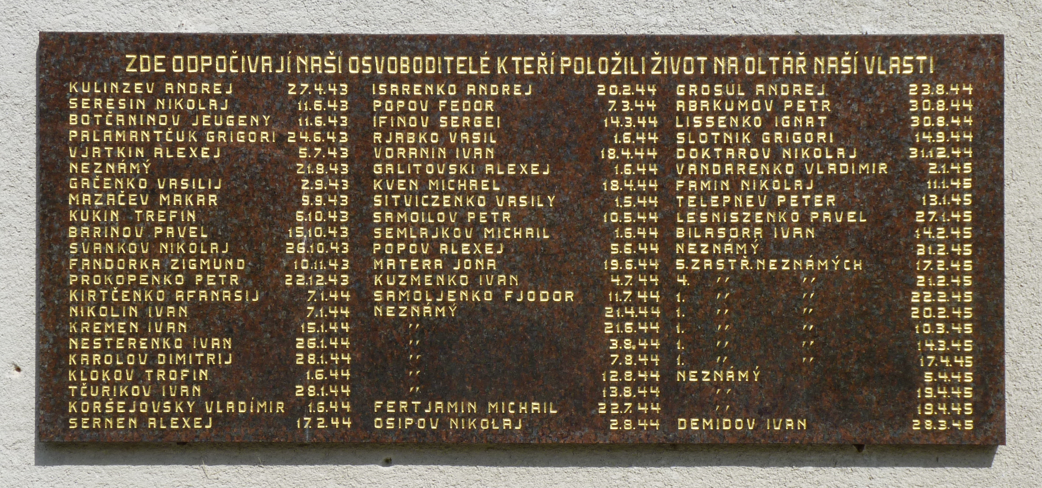 Memorial to Russian liberators in Karviná-Doly. Karviná District, Moravian-Silesian Region, Czech Republic